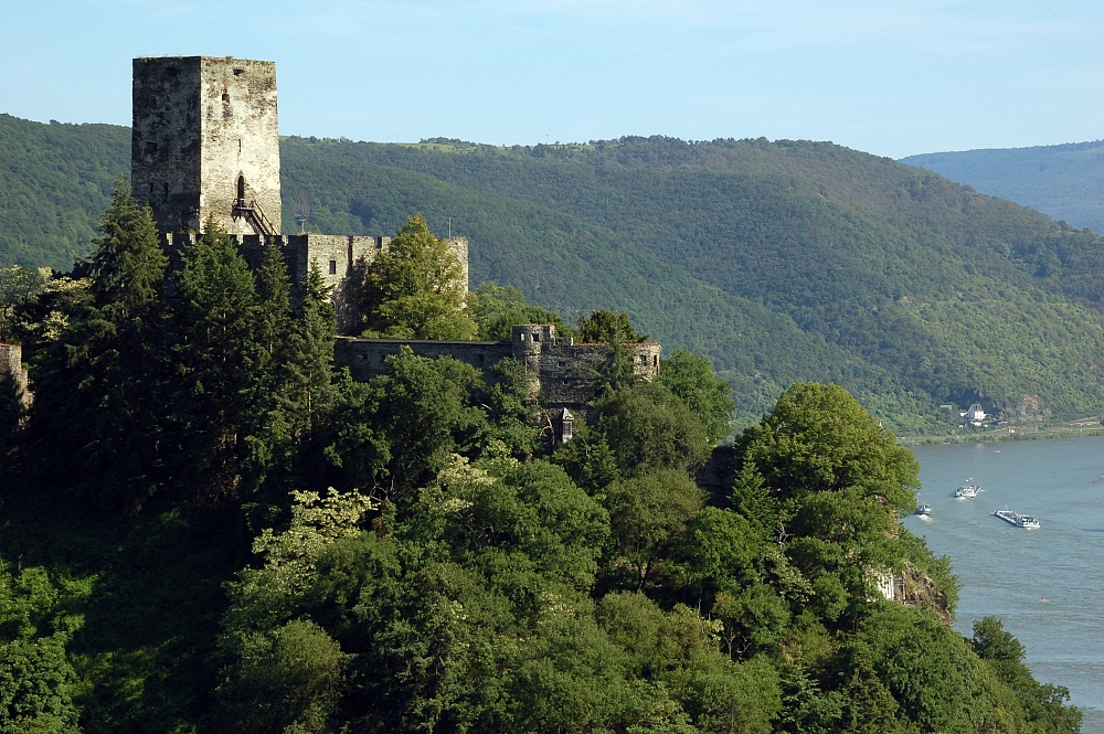 Burg Gutenfels, Castle in Rhineland-Palatinate, Kaub, Germany